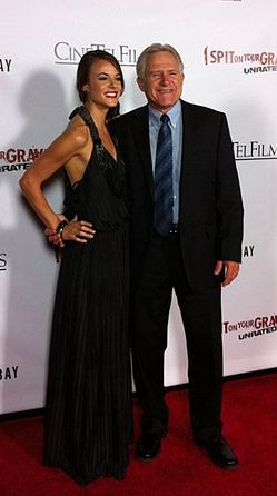 Sarah Butler